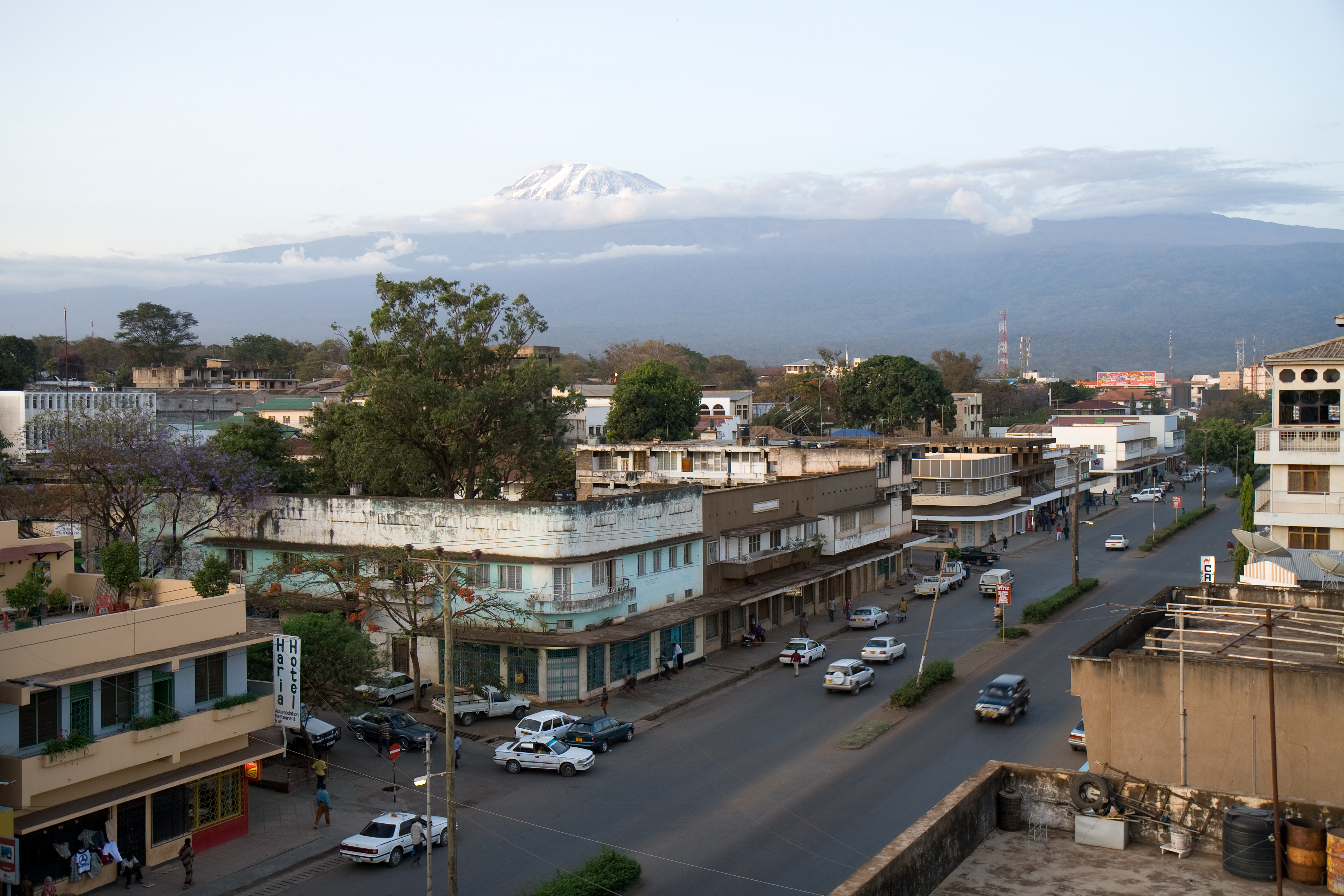 View from the roof of our hotel towards Kilimanjaro.